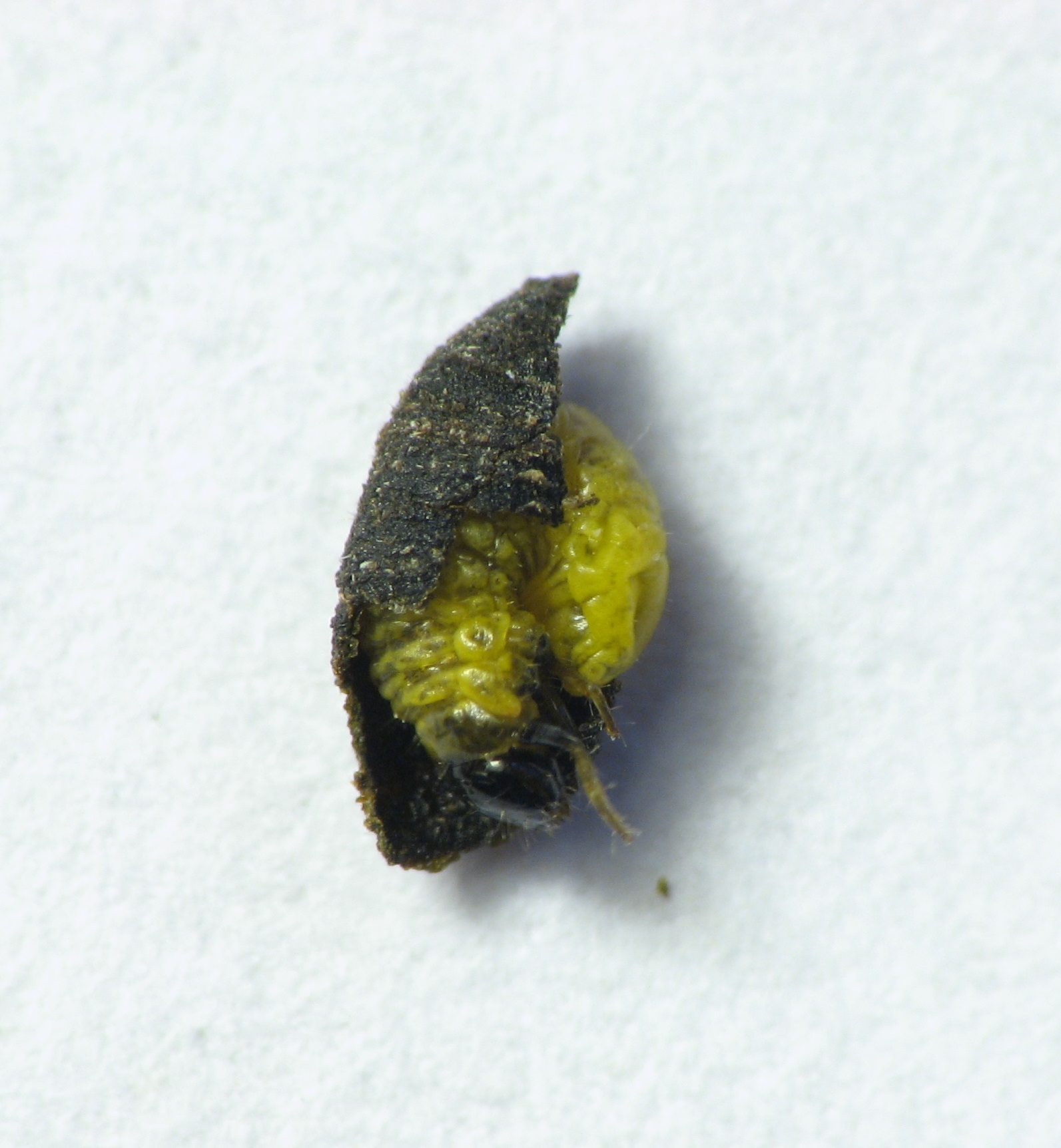 Warty leaf beetle, Exema, larva in fecal case on goldenrod leaf. Size: 6-7mm. stretched out. Pennypack Restoration Trust, Montgomery County, Pennsylvania, USA. 40.1420° N, 75.0830° W.